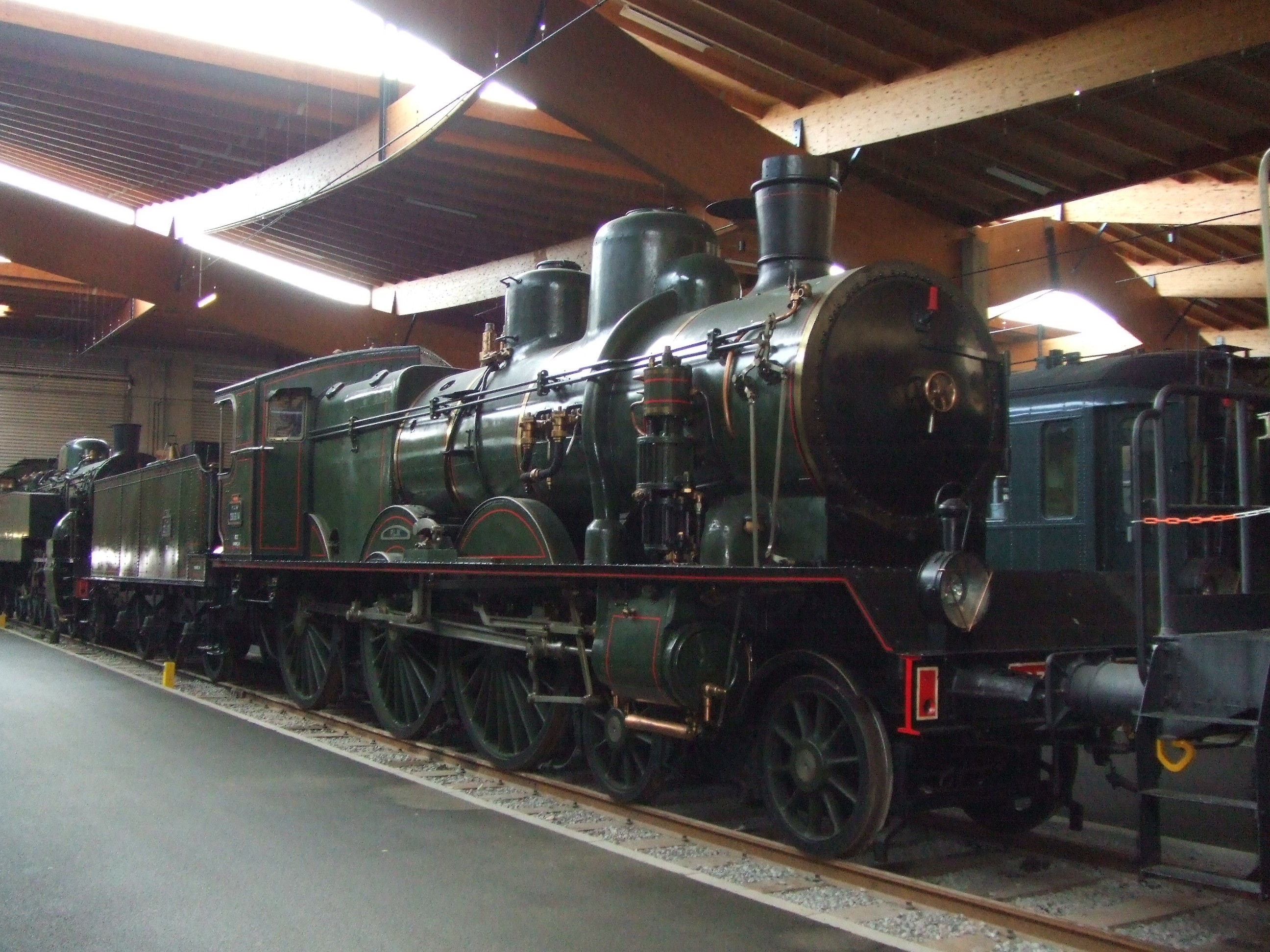 PLM 4-6-0 No.2714 (SNCF 230B.114) (Henschel 1909); designed by C. Baudry. 164 were built 1904-09 and 10 were rebuilt by Chapelon 1938-39 to Class 230F, when WWII stopped further rebuilds. 3/07